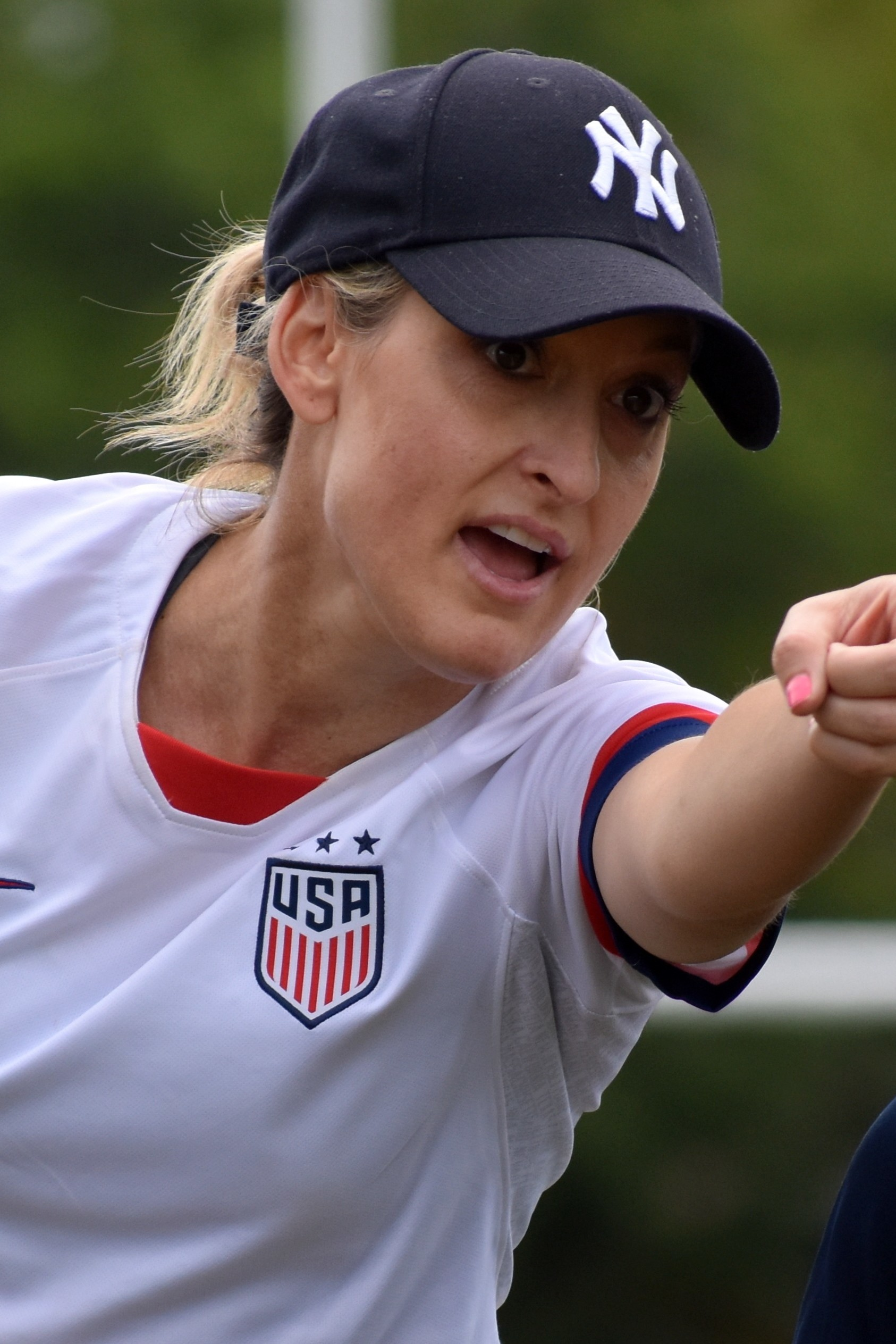 Nikki Serlenga, a former United States women's national soccer team player and a silver medal winner as a member of the 2000 U.S. Olympic Team, works with Shayne Wallen, 9, during a soccer clinic at Camp Zama, Japan, June 14. (Photo Credit: Wendy Brown, U.S. Army Garrison Japan Public Affairs)